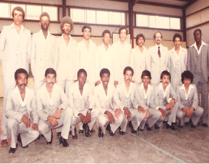 Mohammed Johar in 1970 in the city of Berlin Federal Republic of Germany